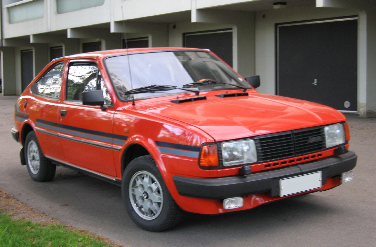 Škoda 130 Rapid, photographed in Finland, May 2004